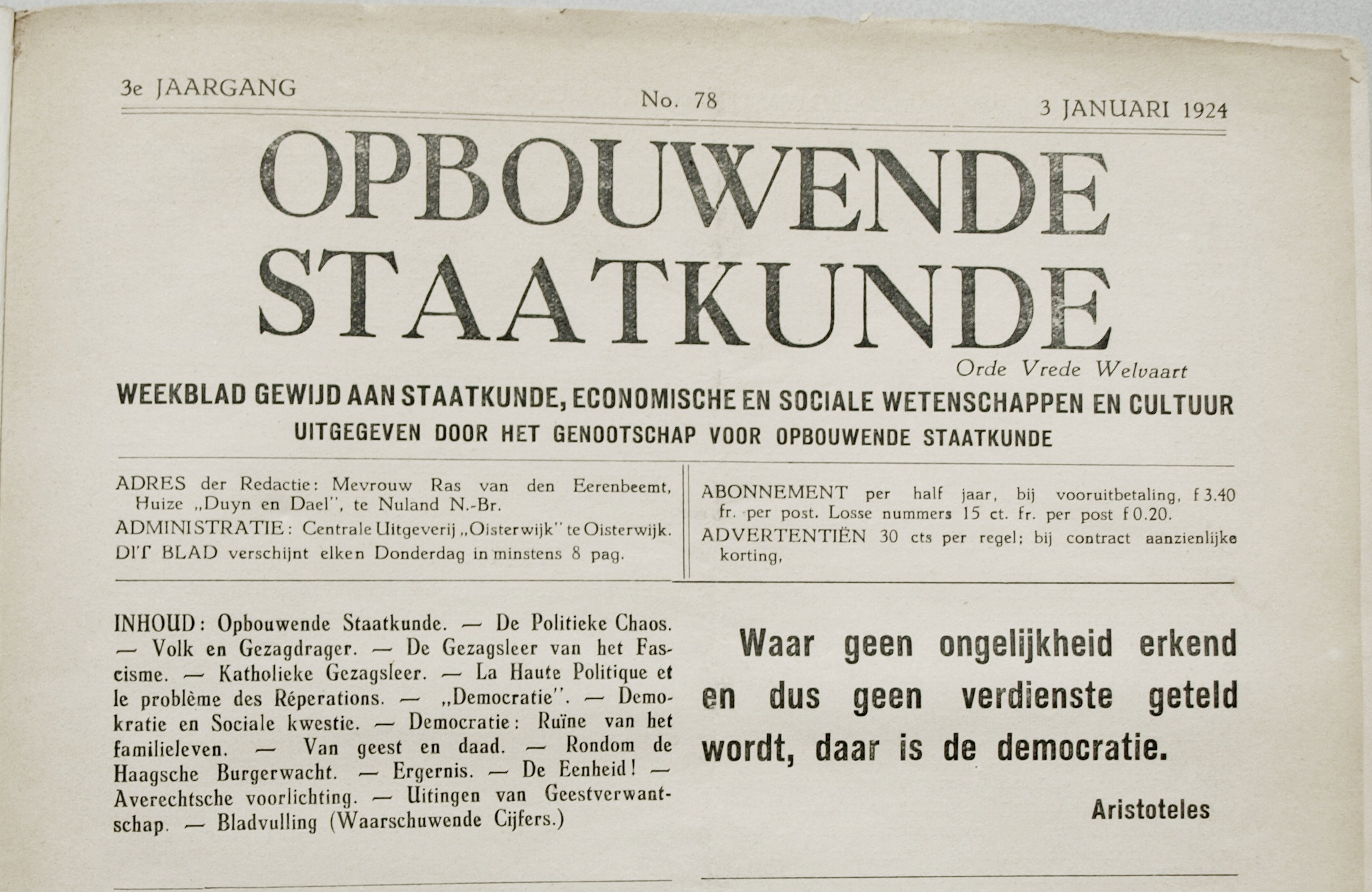 header of Opbouwende Staatkunde, Dutch magazine – nr. 78, 3 januari 1924